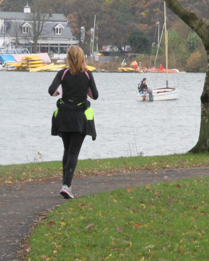 A lot of women with constipation doing sports